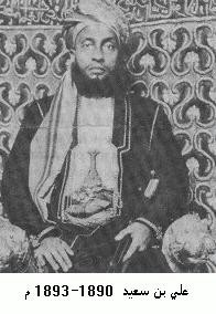 sultan ali bin said of zanzibar, he ruled between 1890 - 1893